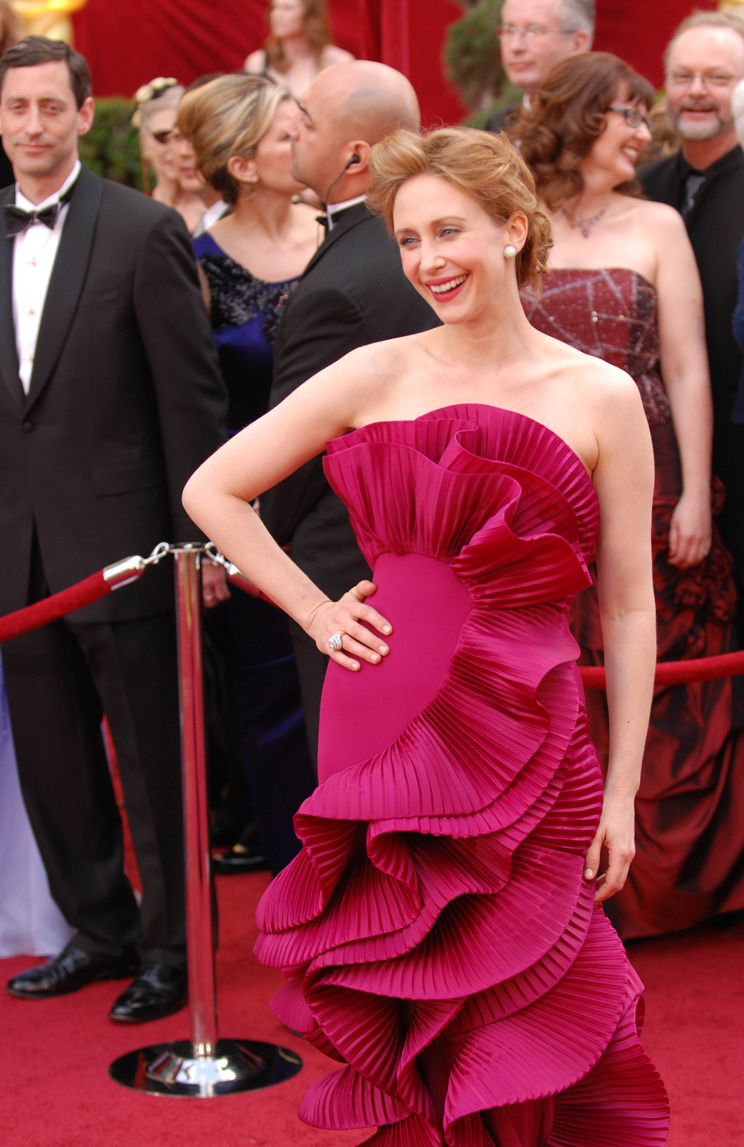 Vera Farmiga is all smiles on the red carpet at the 82nd Academy Awards, March 7, in Hollywood, Calif. She was nominated for supporting actress for "Up in the Air."